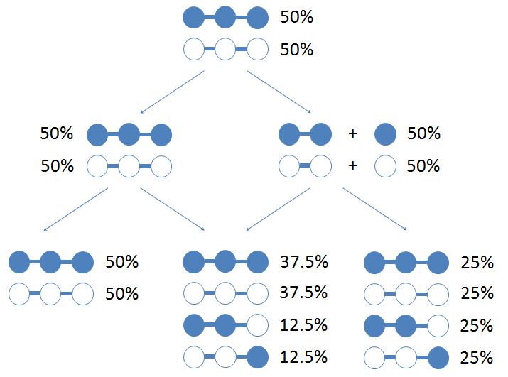 Flux Distribution